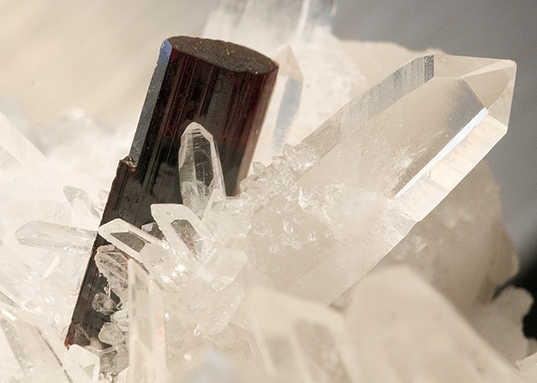 Hübnerite, Quartz Locality: Huayllapon Mine (Huallapon Mine), Pasto Bueno District, Pallasca Province, Ancash Department, Peru (Locality at ) Size: 9.3 x 6.5 x 4.5 cm. An excellent and aesthetic specimen of deep cherry-red hubnerite from the finds of the mid-1970s at the Huayllapon Mine, which remain to this day the standard for the species in terms of lustre and form as well as that deep cherry-red color (visible usually with strong backlighting, but here at least you can see hints of it even in normal lighting). This pristine crystal (just under 2 cm) has metallic lustre, and it is beautifully accented by a jackstraw cluster of gemmy quartz crystals.